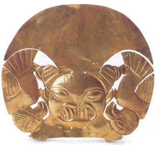 Mochica Headdress Condor: 400 A.D. Larco Museum Collection, Lima, Peru. Larco Museum Native nameMuseo Arqueológico Rafael Larco HerreraLocationAv. Bolivar 1515, Pueblo Libre, Lima, PeruCoordinates12° 04′ 20.99″ S, 77° 04′ 15.1″ W Established28 July 1926Web page control : Q1954240 VIAF: 123465272 ISNI: 0000 0001 2150 3342 LCCN: no97060570 GND: 5268907-4 WorldCat institution QS:P195,Q1954240